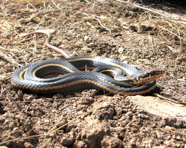 Alameda whipsnake (Masticophis lateralis euryxanthus) Status: Threatened Photo credit: USFWS